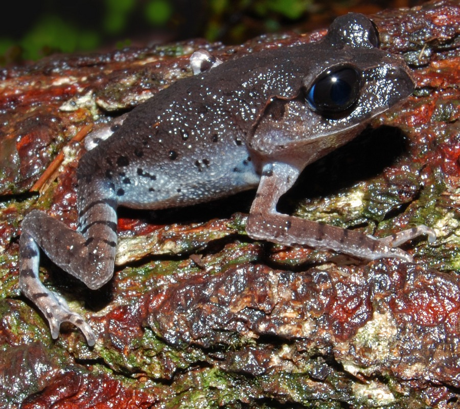 Leptobrachium hasseltii, male, from Ciapus leutik river, Calobak, Bogor, West Java, Indonesia